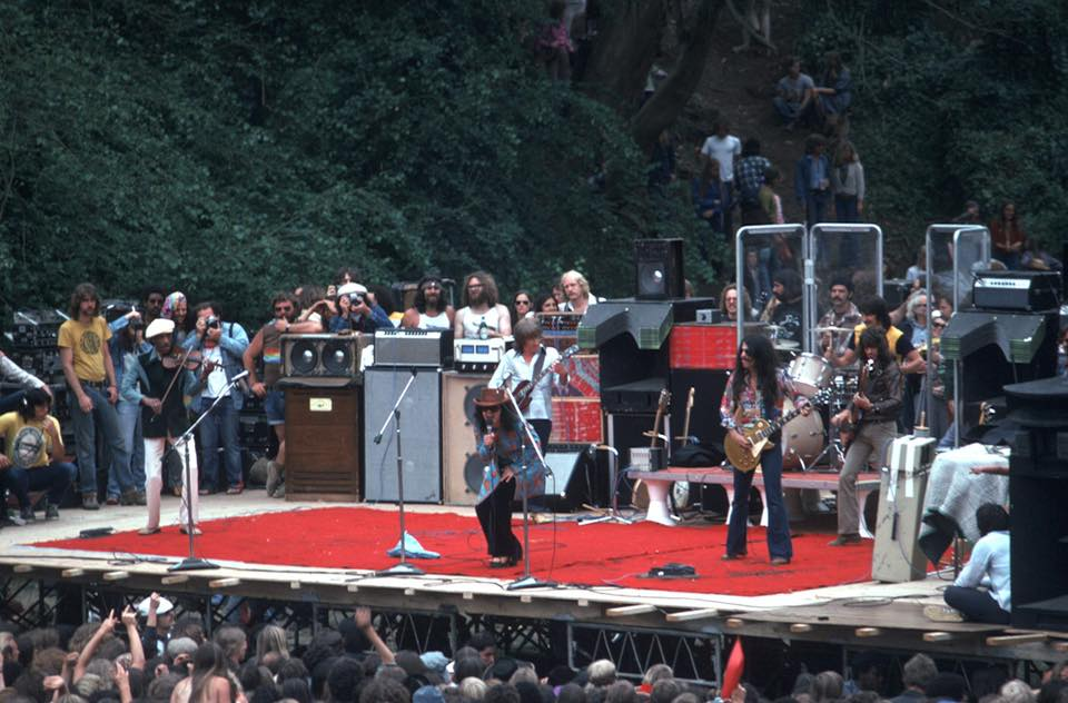 Jefferson Starship free concert in Golden Gate Park, San Francisco – May 30, 1975Jefferson Starship played 7/4/76, at Washington Park, Homewood, IL and played 7/7/76, in Central Park, NYC